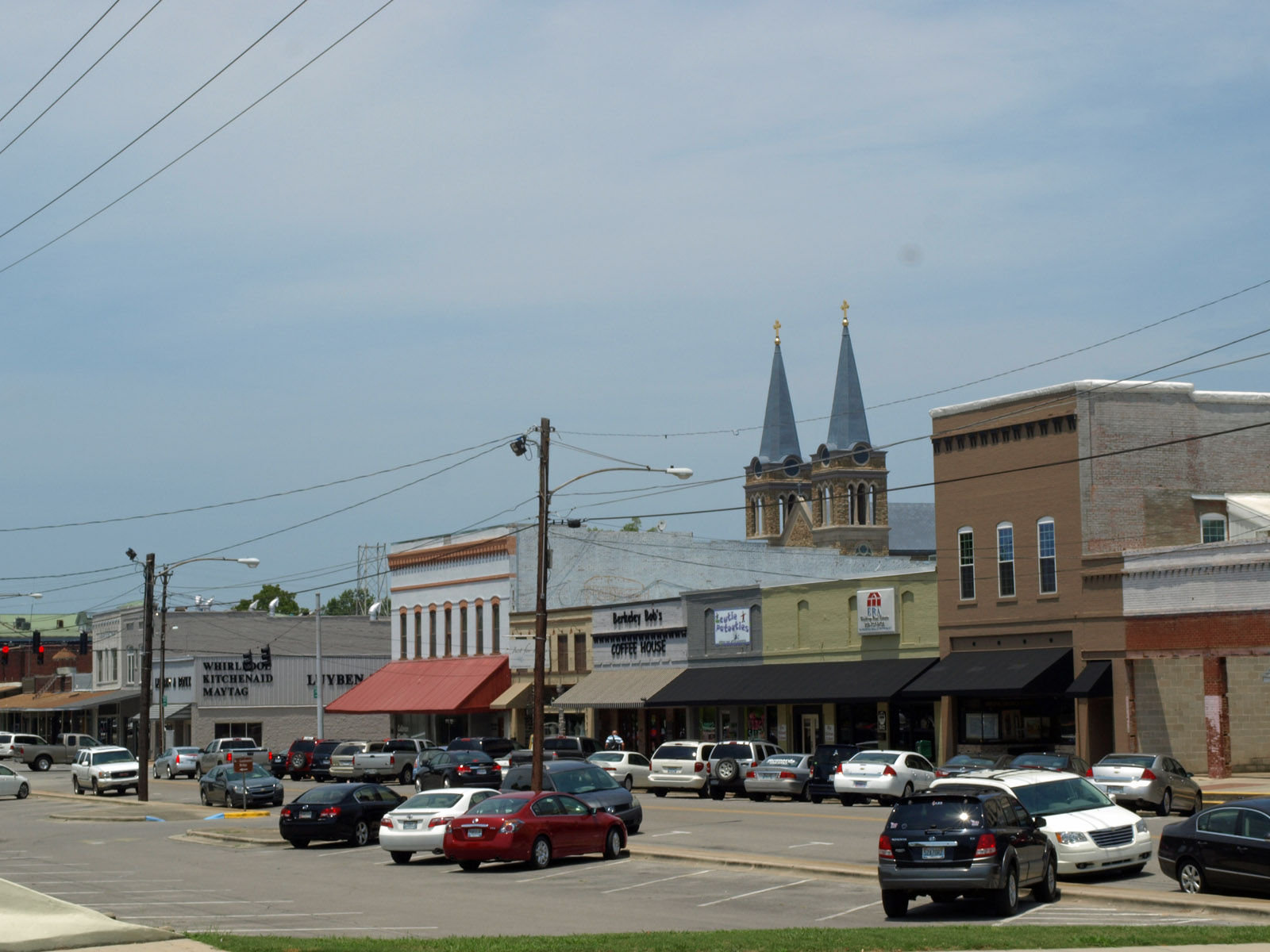 The 300 block of 1st Avenue SE in Cullman, Alabama, part of the Cullman Downtown Commercial Historic District